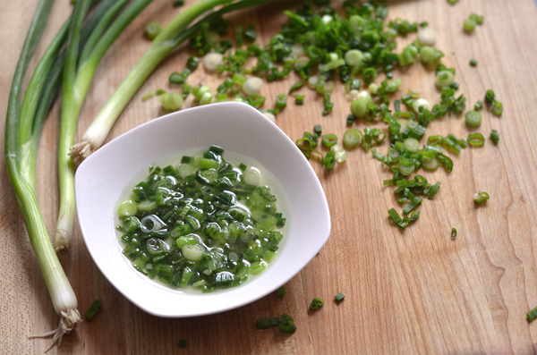 You are free to: Share — copy and redistribute the material on your website on the internet in any format. Adapt — remix, transform, and build upon the material for any purpose on the internet, even commercially. However, you must give appropriate credit and provide a link next to the image you use to and the original post, here